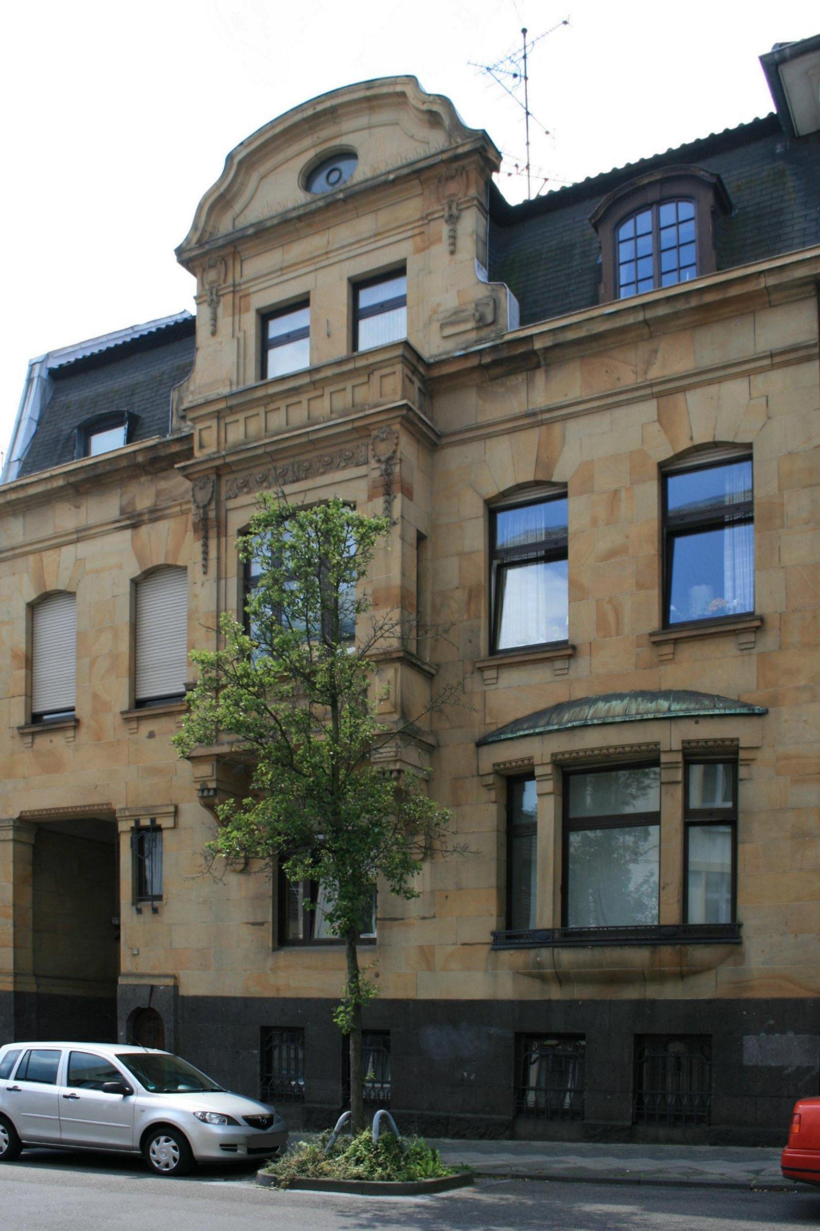 Cultural heritage monument No. C 003 in Mönchengladbach